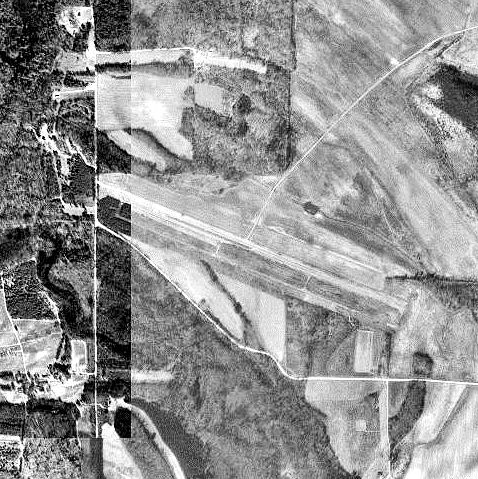 USGS digital orthophoto of Vaughn Airport in Mississippi